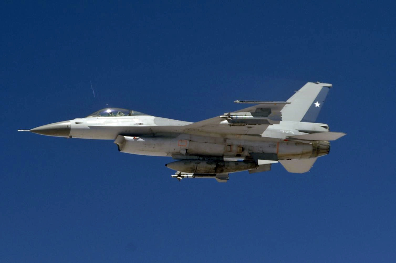 IQUIQUE, Chile – A Chilean F-16 flies on the wingtip of a U.S. KC-135 Stratotanker after refueling Oct. 26. The Fuerza Aérea de Chile or FACh hosted the United States, Brazil, Argentina, and France during Exercise SALITRE II, a multinational exercise focused on interoperability. (U.S. Air Force photo by Tech. Sgt. Eric Petosky)